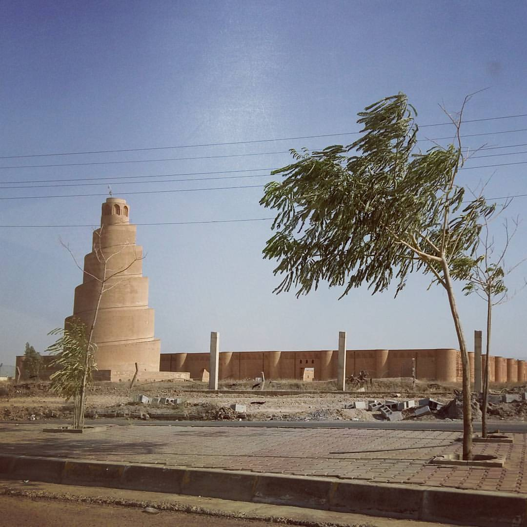 Sameraa the ancient city nothern iraq